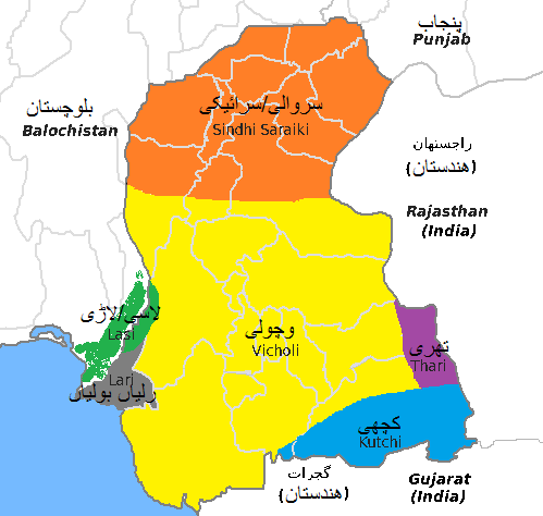 Linguistic map of Sindhi Dialects